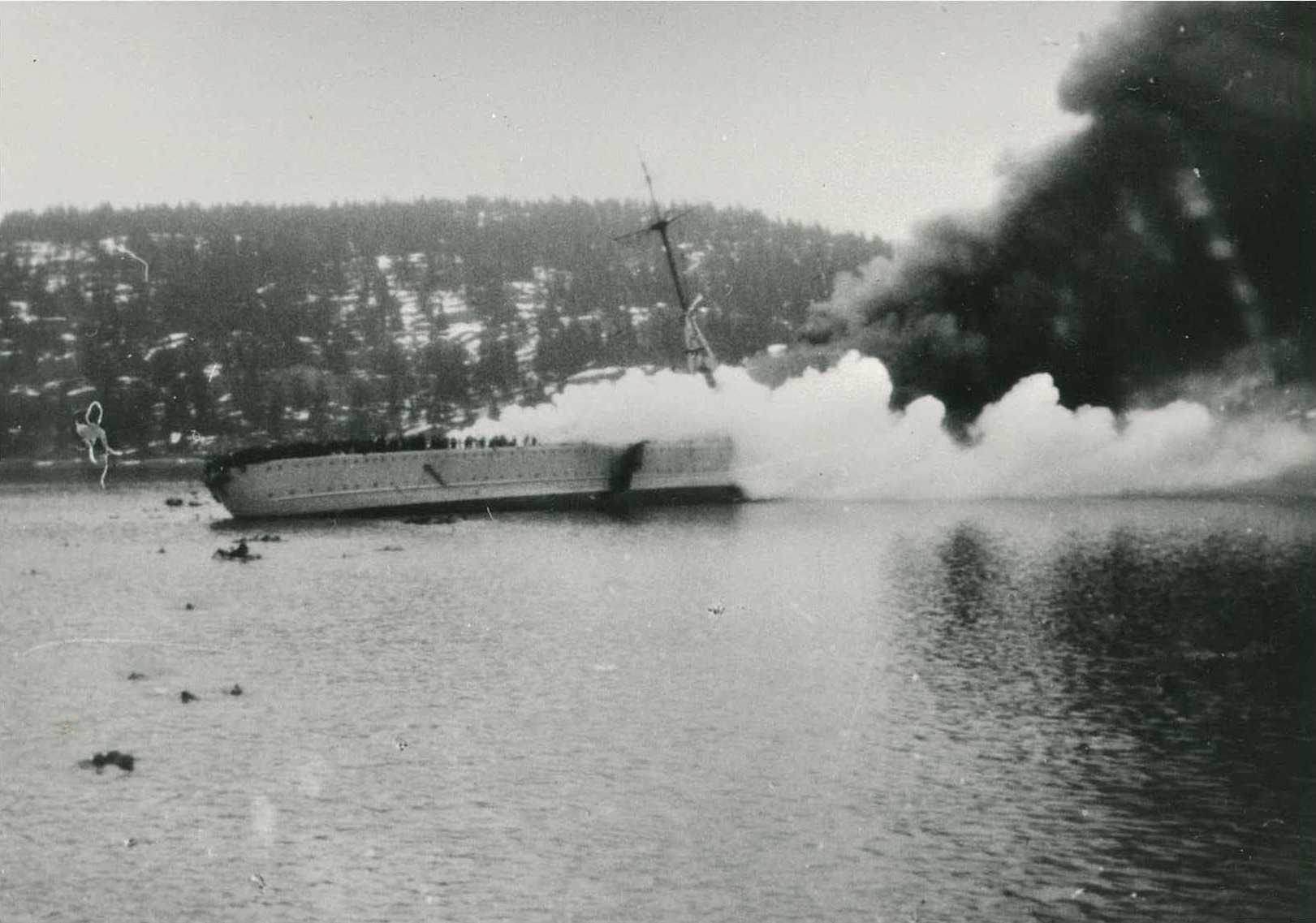 The cruiser Blücher (launched 1937), the lead ship of the German armada headed for Oslo, Norway, was sunk in the Oslofjord by Norwegian military at Oscarsborg Fortress during the Battle of Drøbak Sound on 9 April 1940, the first day of the German invasion of Norway (part of the Norwegian Campaign in World War II). By sinking the ship the Norwegian king and government were saved from being taken captive in the first hours of the invasion. The number of casualties is unknown, but the loss of life probably ranges between 600 and 1,000 soldiers and sailors. The wreck remains on the bottom of the Oslofjord. Photo from Flickr album "Senkingen av Blücher" by Riksarkivet (National Archives of Norway)